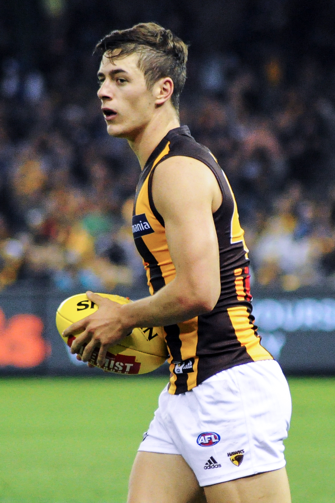 James Cousins during the AFL round five match between North Melbourne and Hawthorn on Sunday, 22 April 2018 at Etihad Stadium in Melbourne, Victoria.